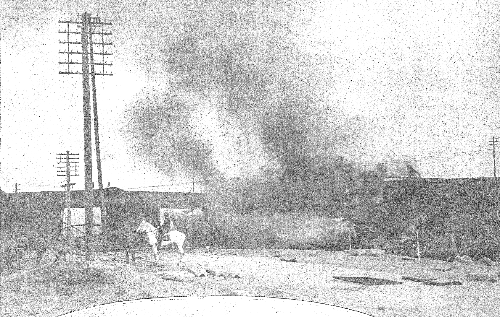 Large blasting and burning of the train for Chang Tso-lin party